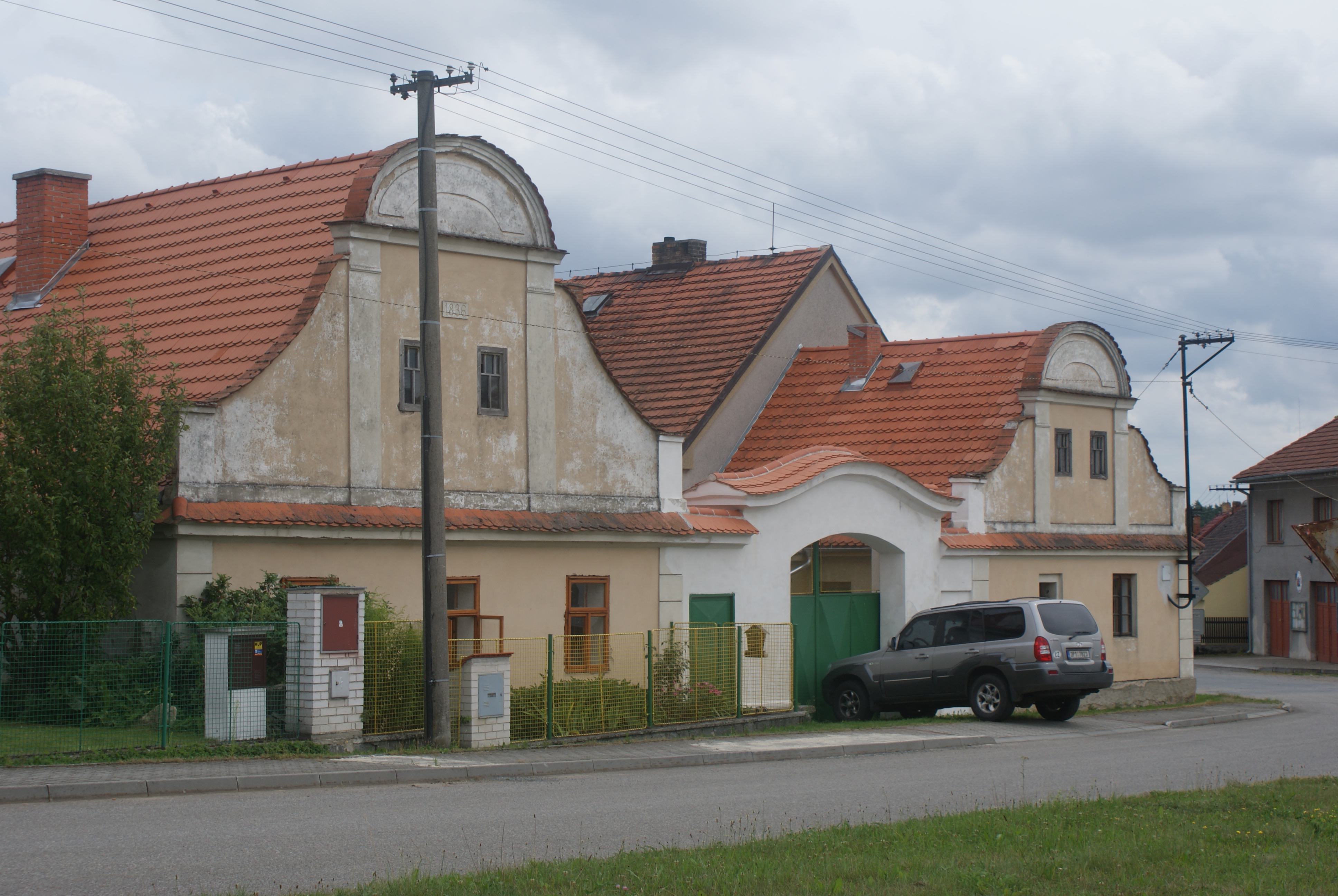 Chlum, Strakonice District, Czech Rep., a homestead on the village common.